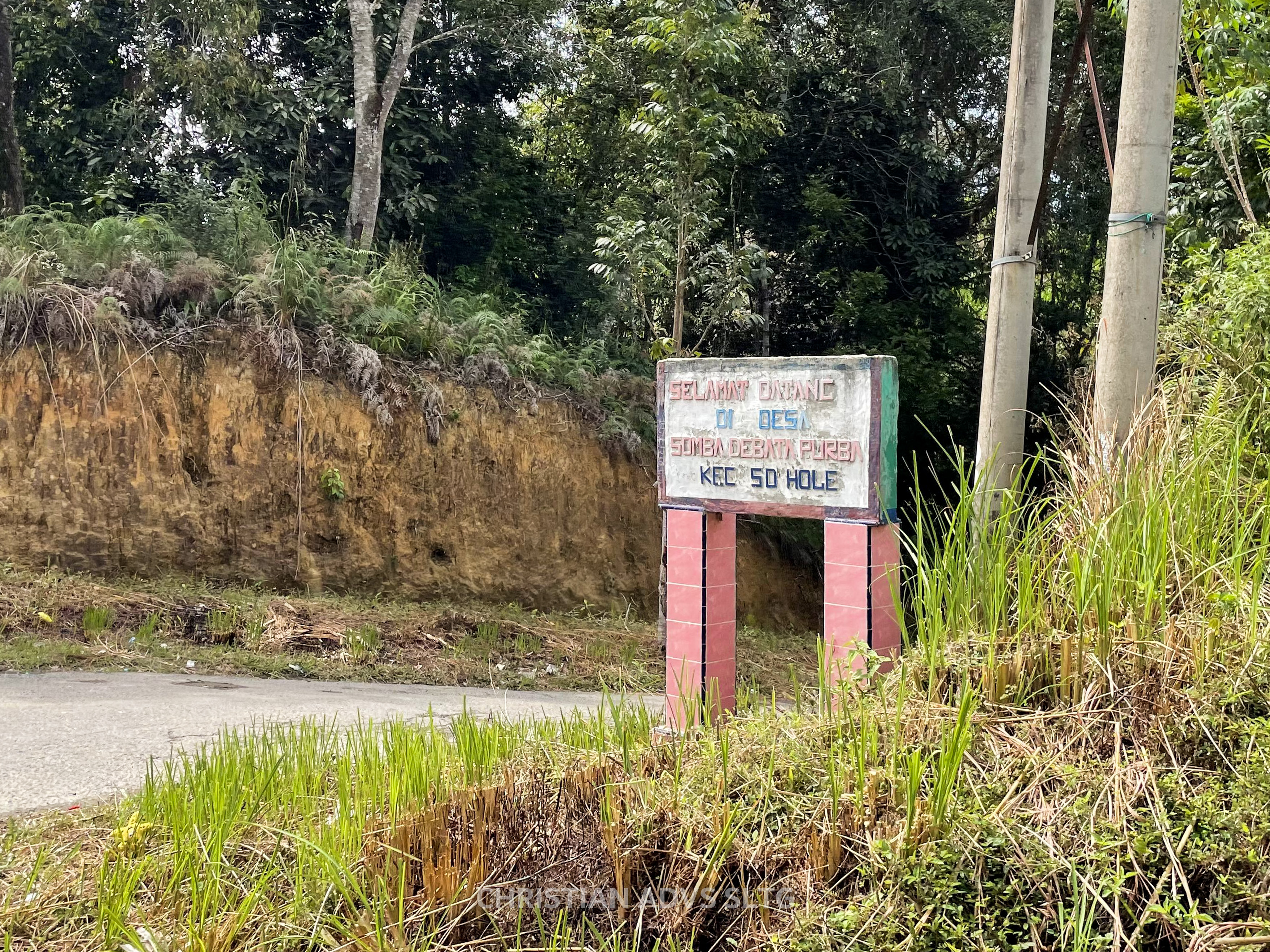 welcome gate to Somba Debata Purba, Saipar Dolok Hole, South Tapanuli